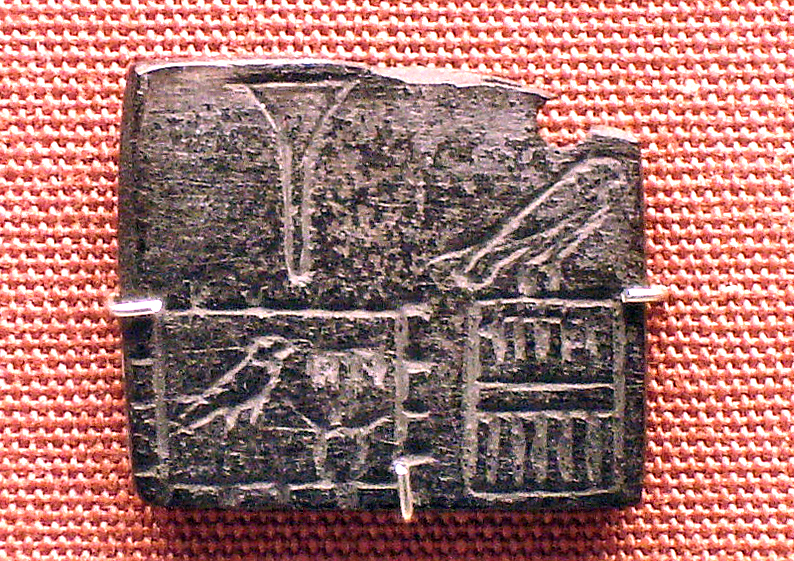 Small ivory label with the serekh of Djer and the adendum "the fortress Heart-of-Horus-Djer thrives". Originally from Abydos. Umm el Qaab, tomb O (Tomb Djer), now in the British Museum. The piece, partly charred, shows the aftermath of a fire in the tomb of King Djer.